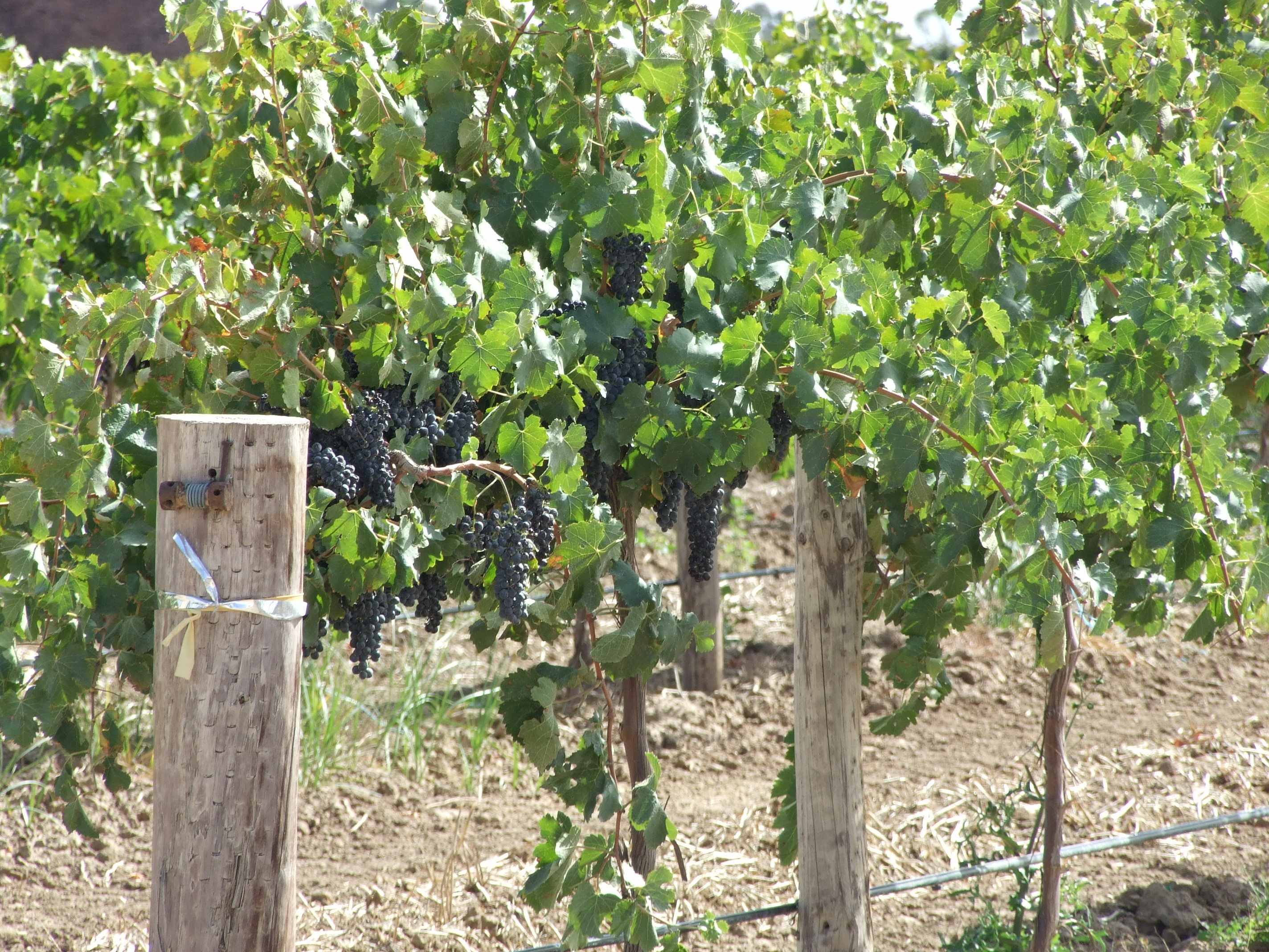 Red wine grapes growing the Australian wine region of the Barossa Valley.